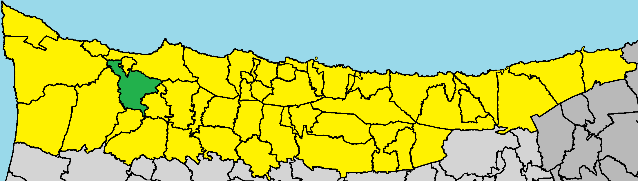 Myrtou in Kyrenia District (de jure).